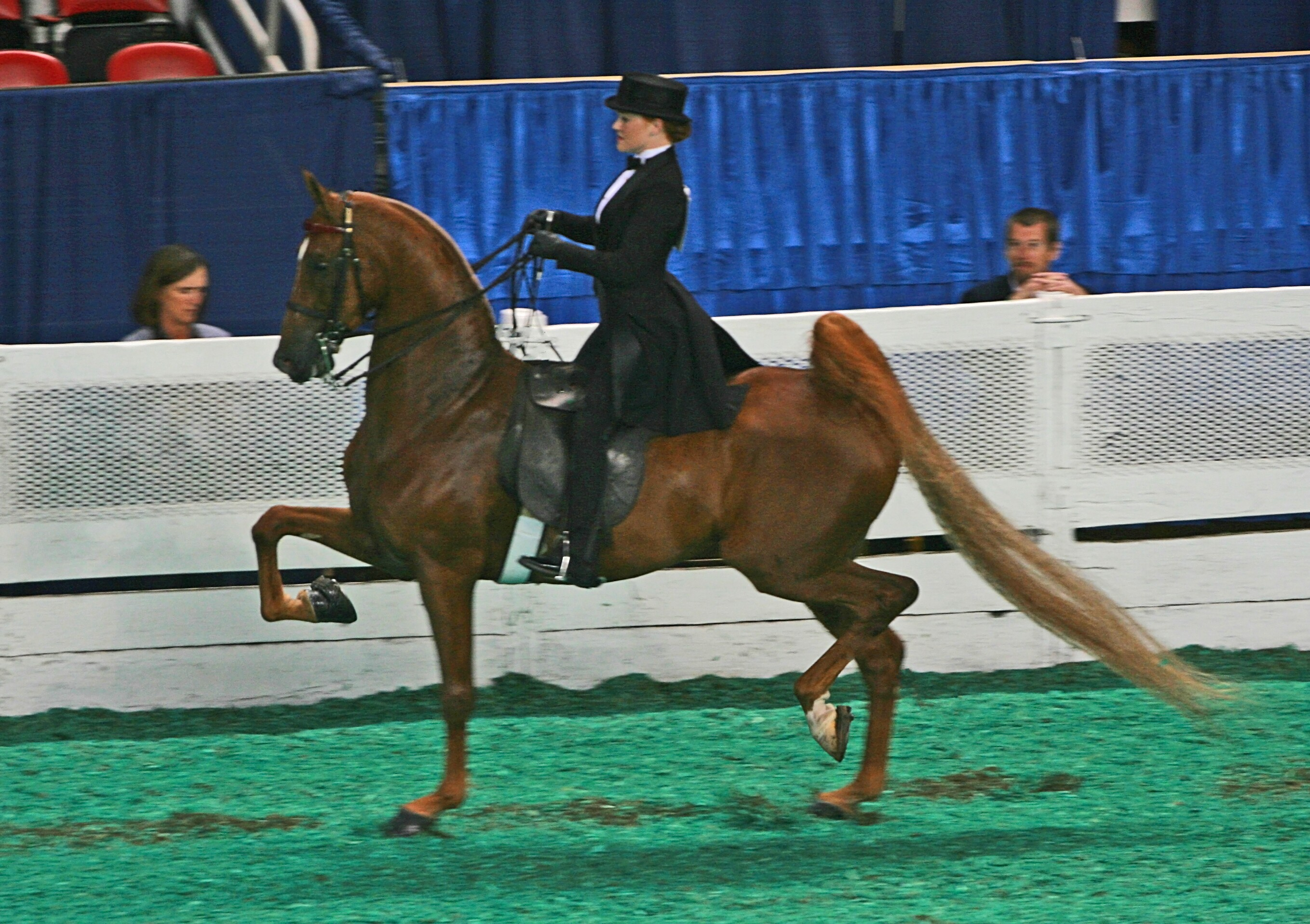 Photo By Heather abounader